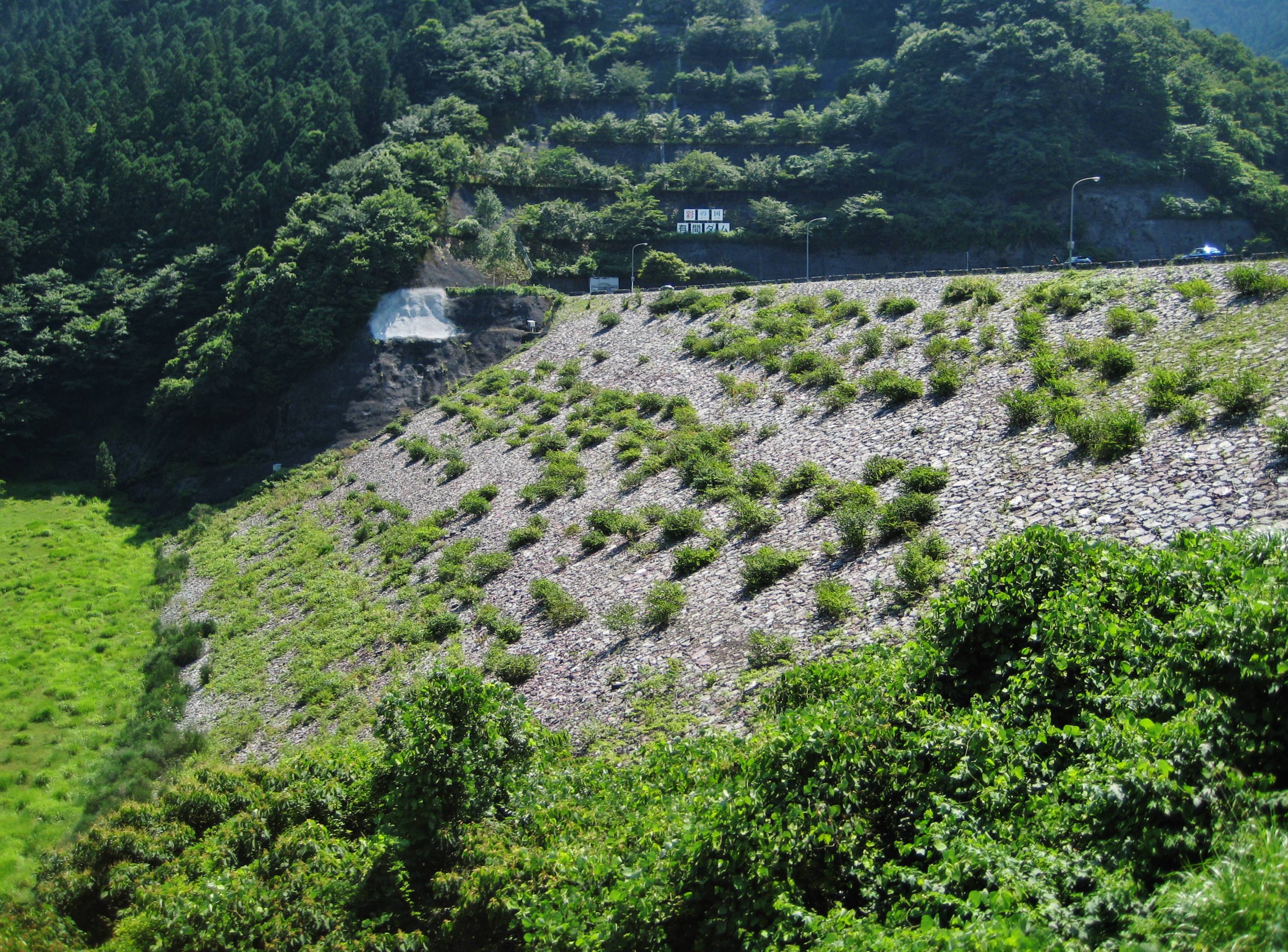 Arima Dam.